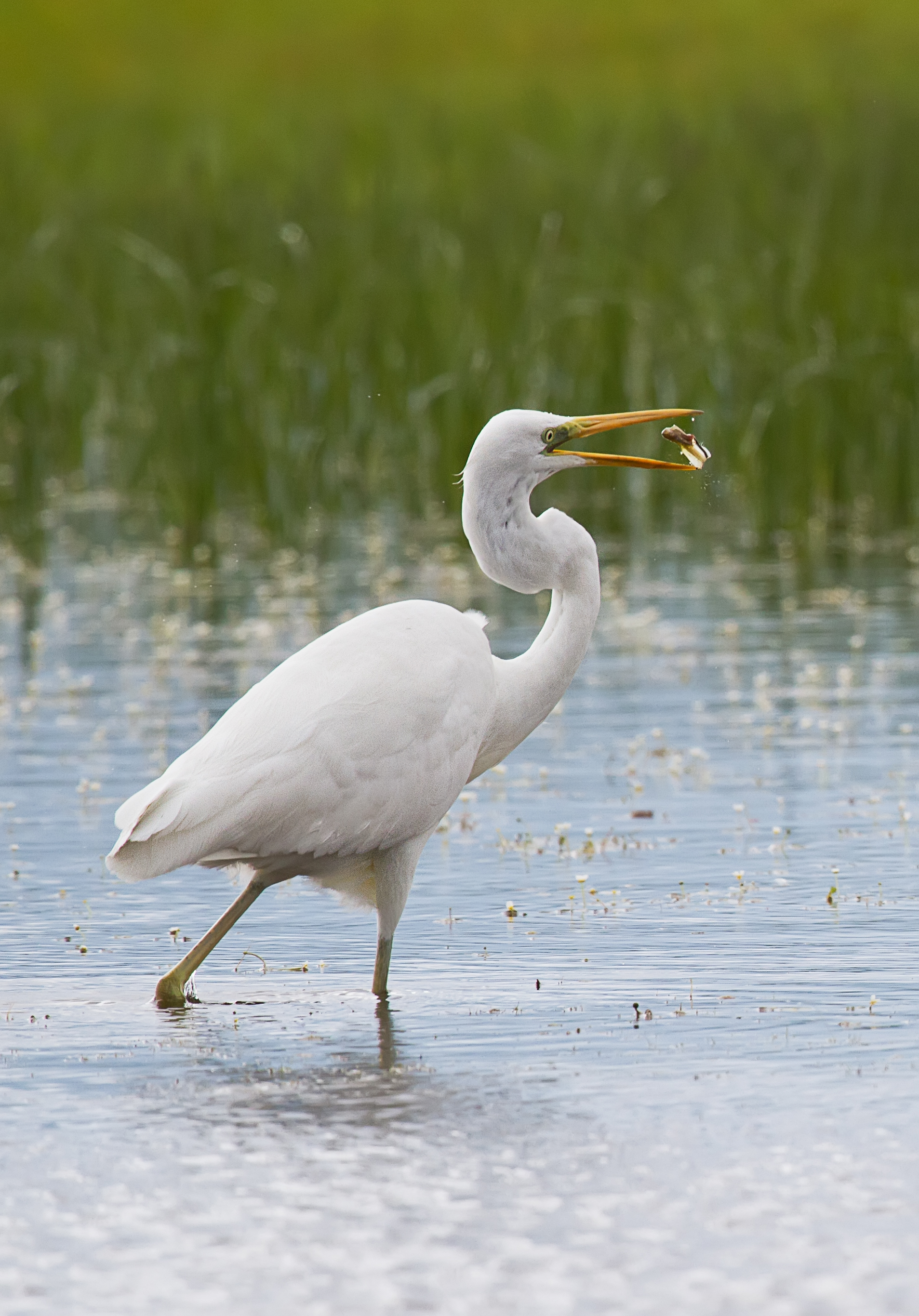 Ardea alba [1] This is a photography of Natura 2000 protected area with ID GR4110004